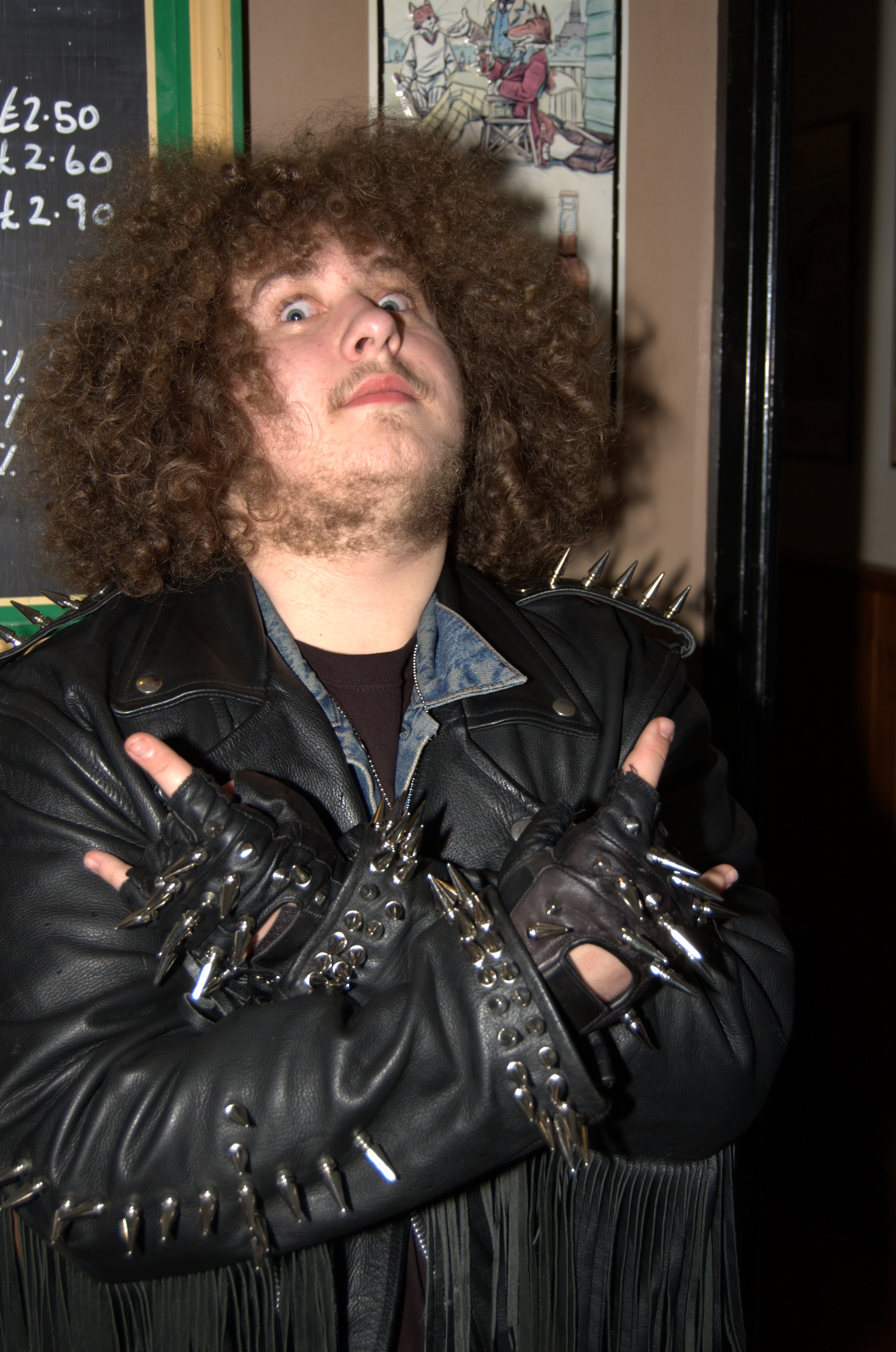 A heavy metal fan in traditional heavy metal jacket and attributes.